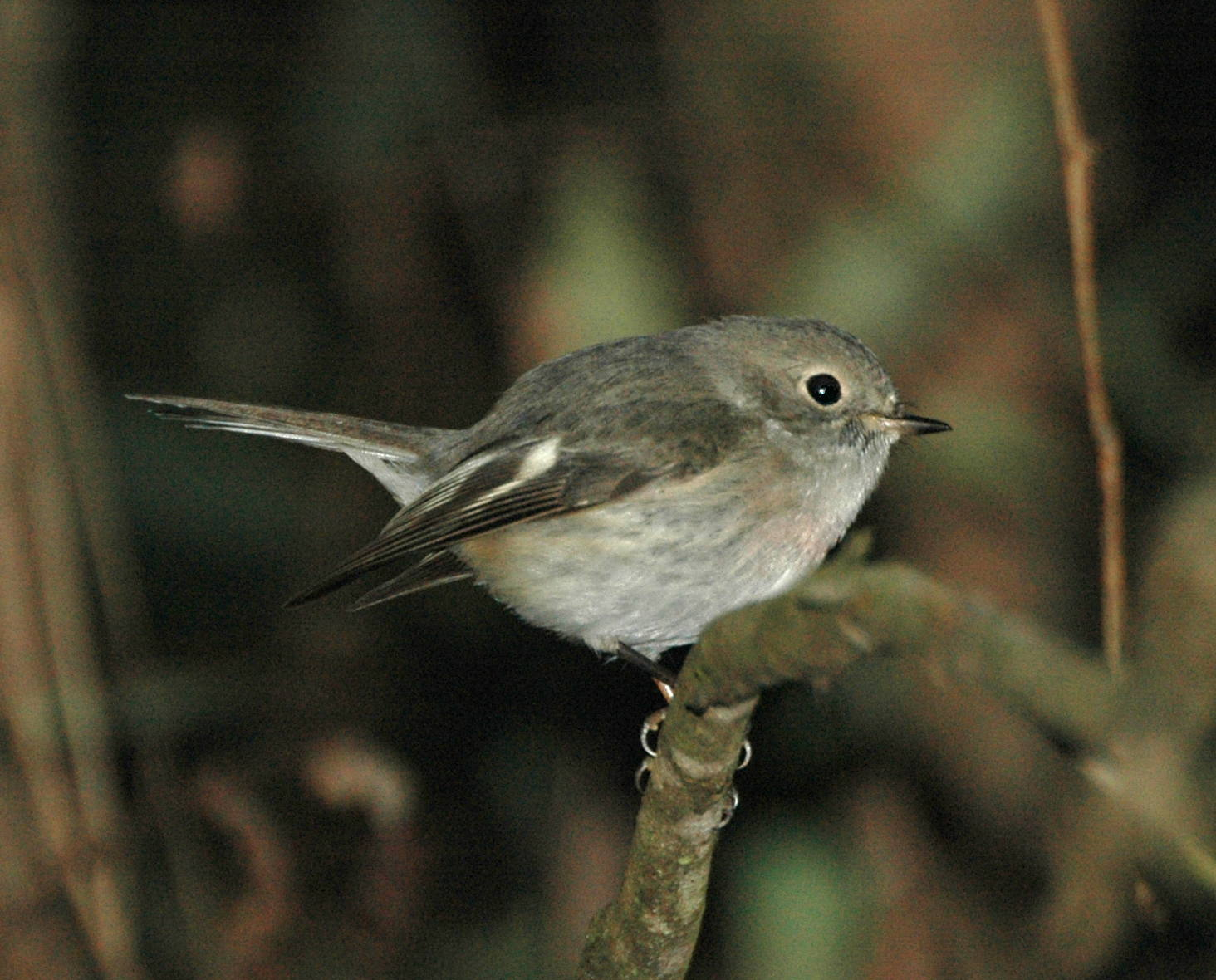 Rose Robin (Petroica rosea) Female, Kobble Creek, SE Queensland, Australia